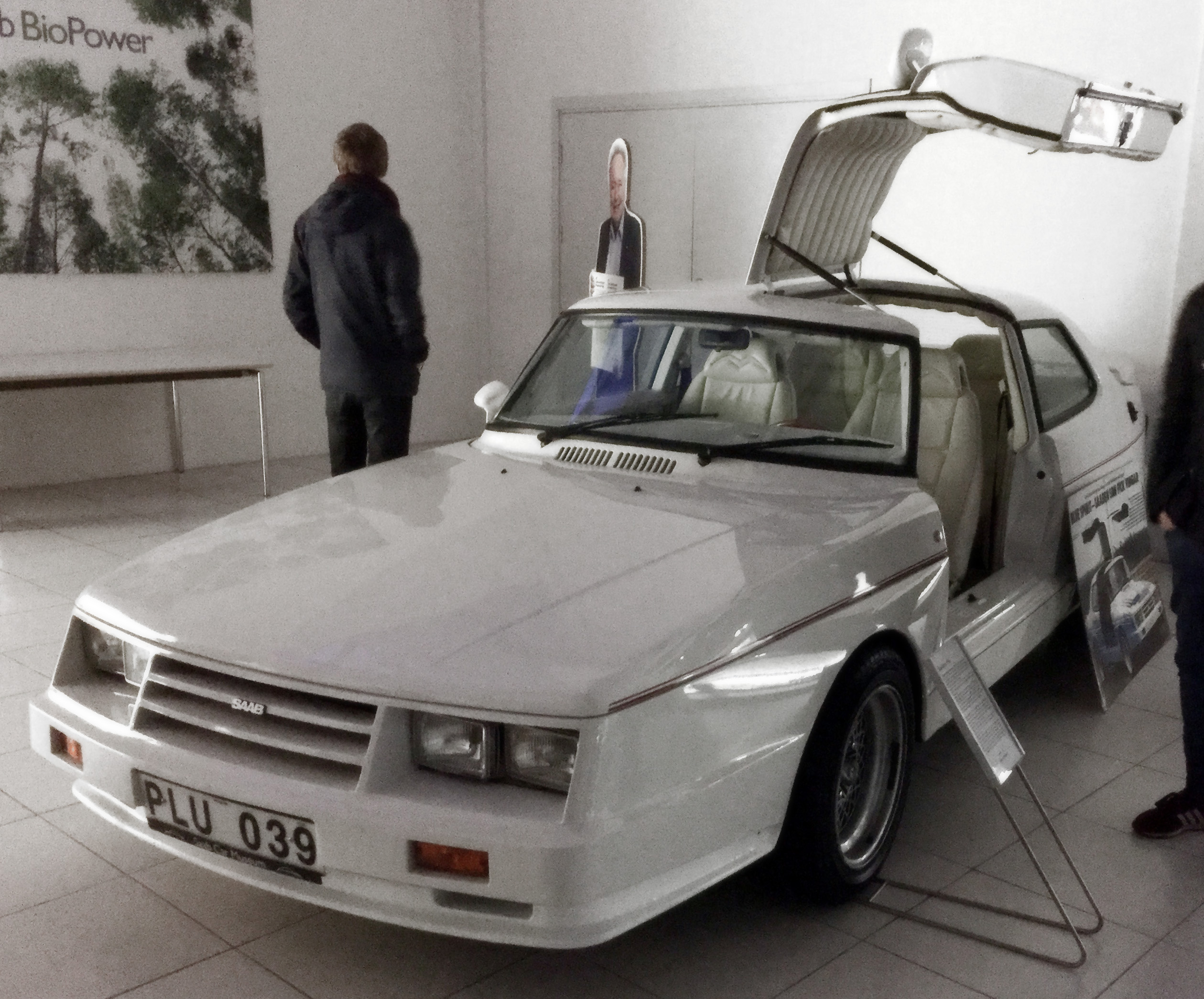 SAAB Blue Spirit concept car